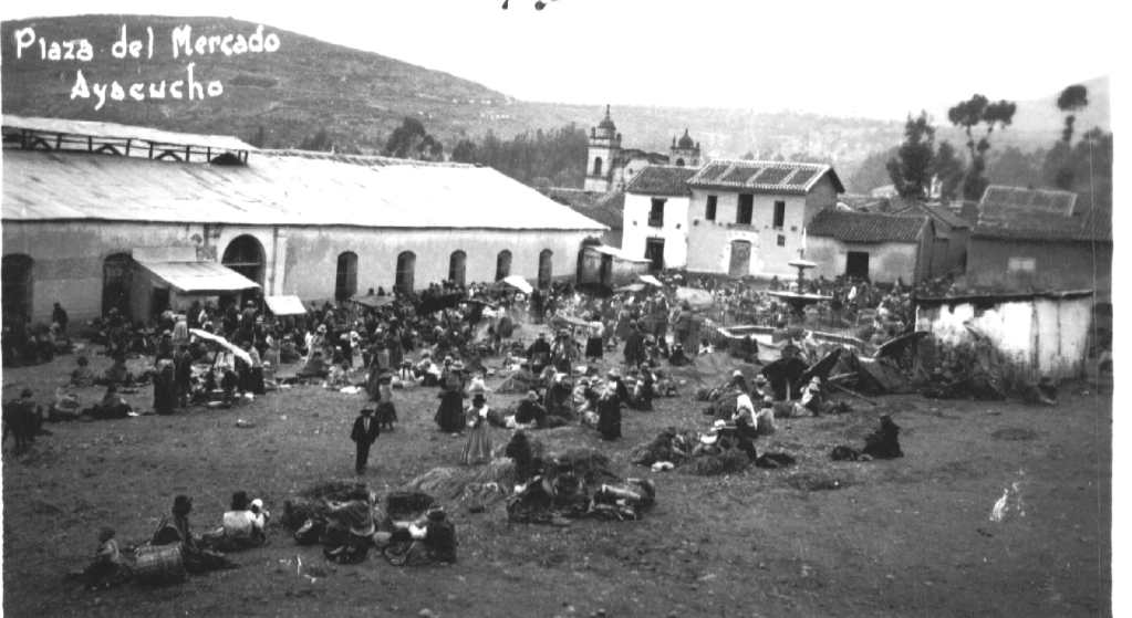 PlazuelaStaClara